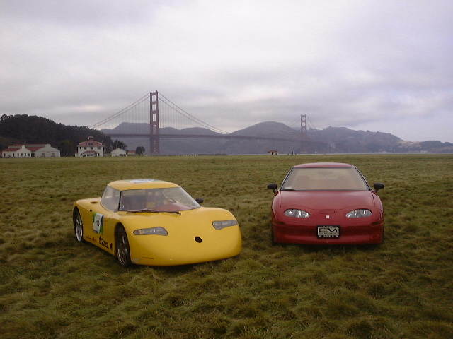 An EV1 and its little brother, the tzero (right to left)